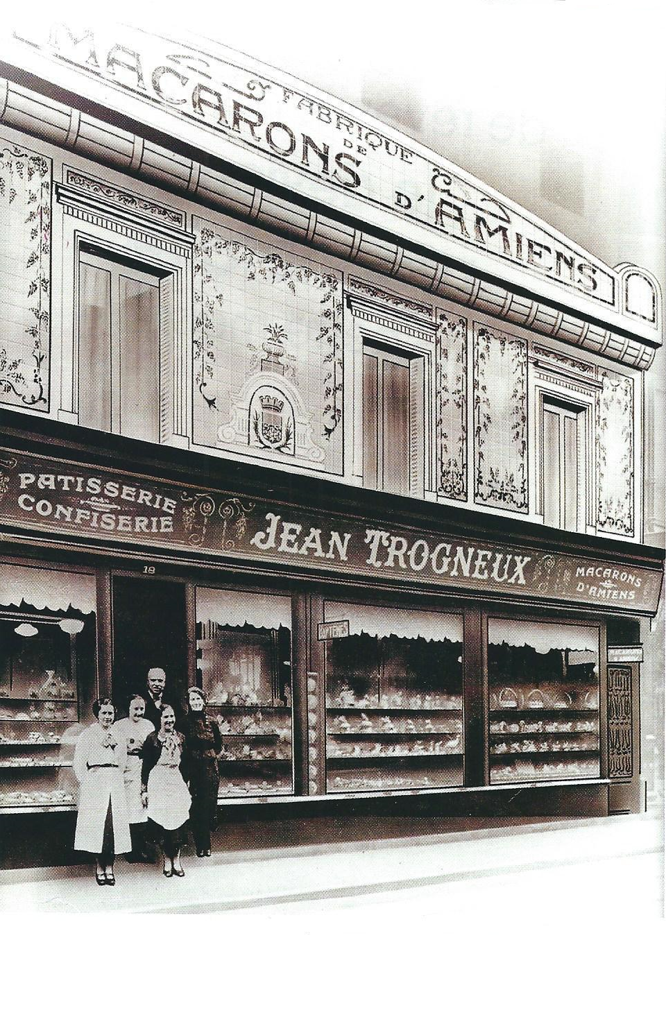 First generation of Trogneux in 1872